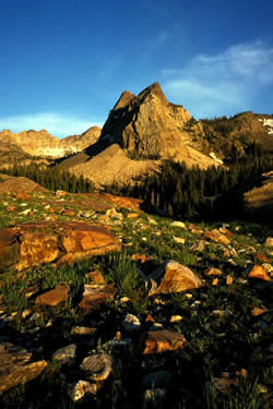 Sundial in Lone Peak Wilderness, Wasatch-Cache National Forest, Utah.